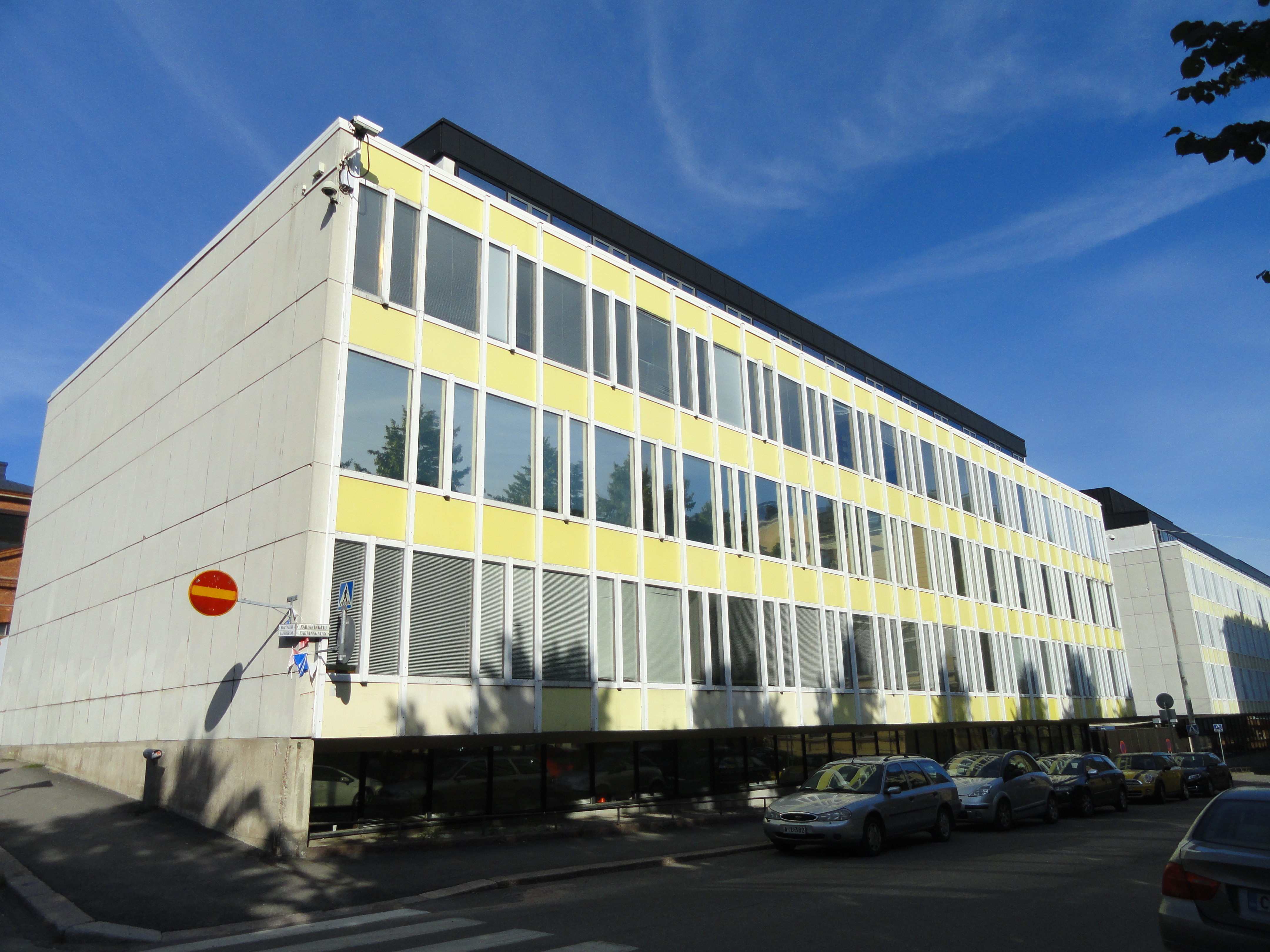 Fabianinkatu - Kaartinkuja intersection, Helsinki, Finland.